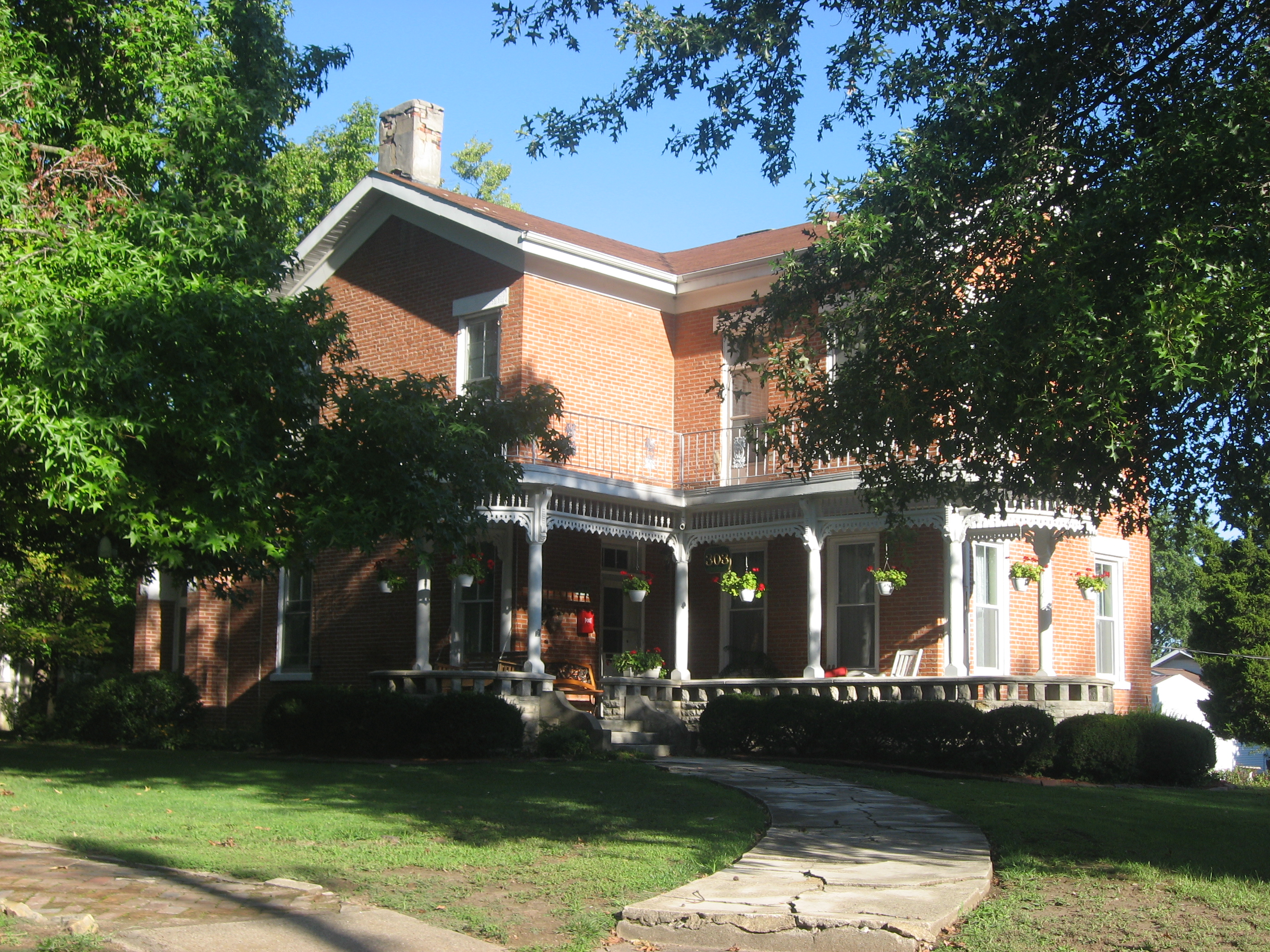 Front of the Rosborough House, located at 303 W. Third Street in Sparta, Illinois, United States. Built in 1867, it is part of the Sparta Historic District, a historic district that is listed on the National Register of Historic Places.